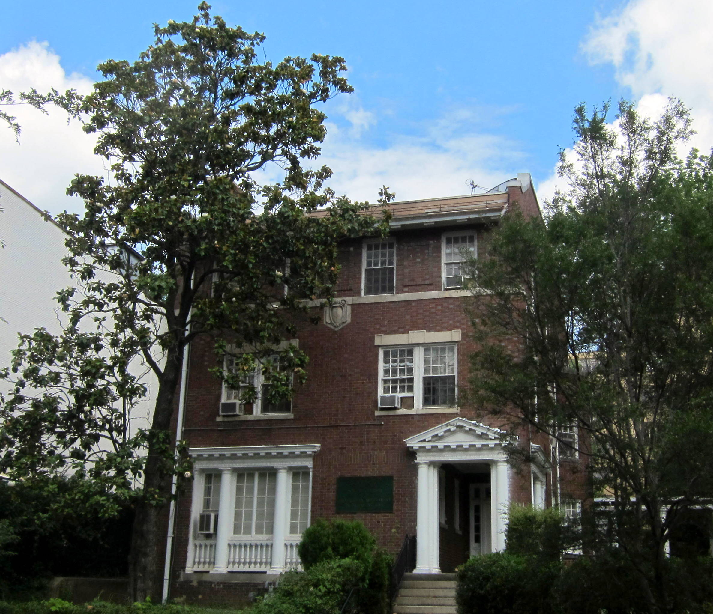 The American Fazl (sometimes spelled Fazal) Mosque located at 2141 Leroy Place, N.W., in the Sheridan-Kalorama neighborhood of Washington, D.C. Built as a private residence in 1912, the Colonial Revival-style building is designated as a contributing property to the Sheridan-Kalorama Historic District, listed on the National Register of Historic Places in 1989. American Fazl Mosque served as headquarters of the Ahmadiyya Muslim Community from 1950 until 1994 (now based in Silver Spring, Maryland). It was the first mosque established in Washington, D.C., opening seven years prior to the Islamic Center of Washington.